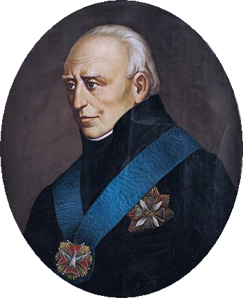 Stanisław Staszic. According to the following article [1] as well as the following book ([ Stanisław Staszic: materiały sesji Staszicowskiej : Piła, 19-20 września 1995], p.170) this is a portrait from 22 February 1826 by Franciszek Sobolewski